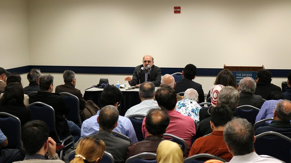 Abdolkarim Soroush at George Washington University, Dec 2015 Photo: Persian Dutch Network